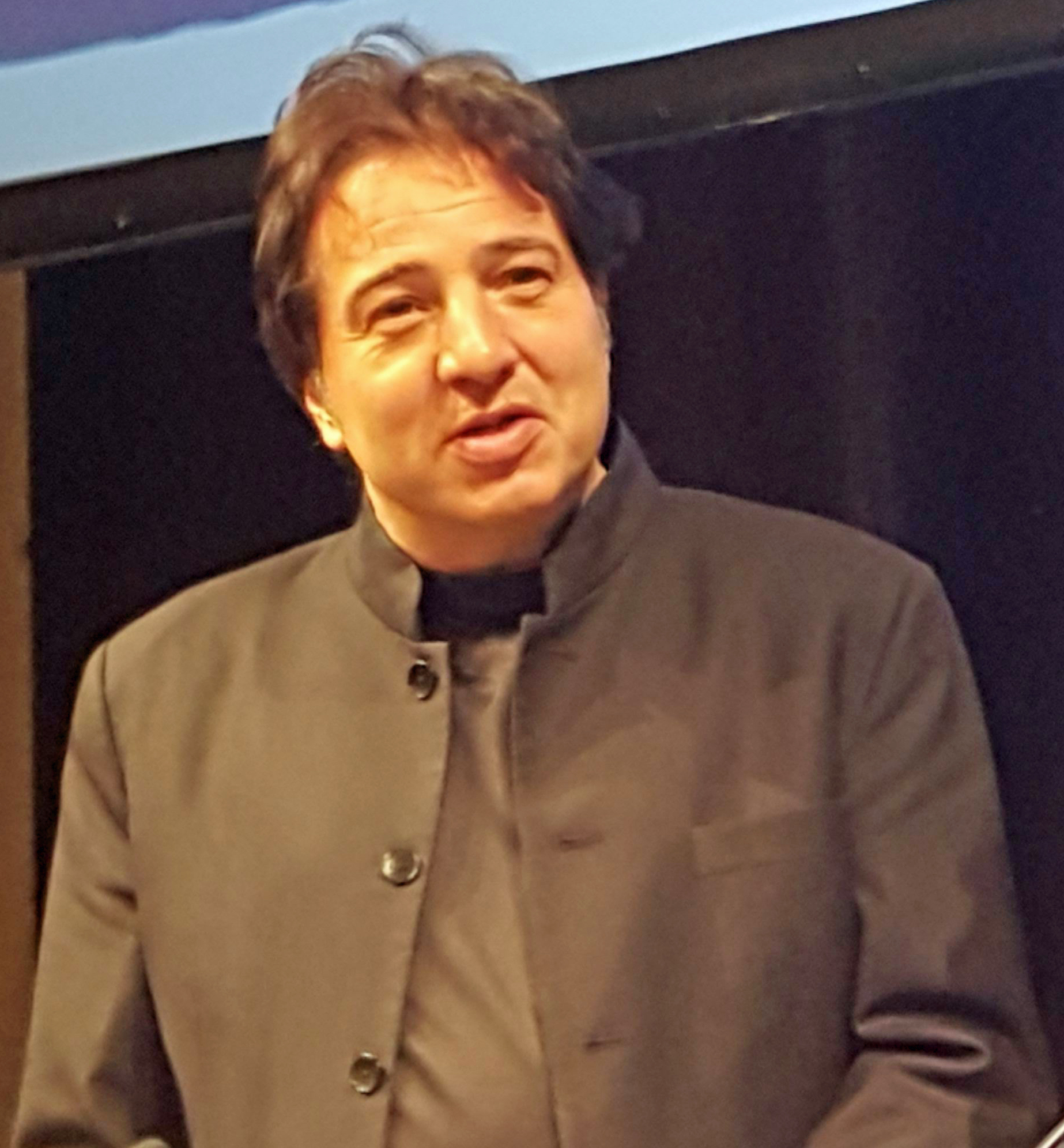 Fazıl Say & Patrick Kessler